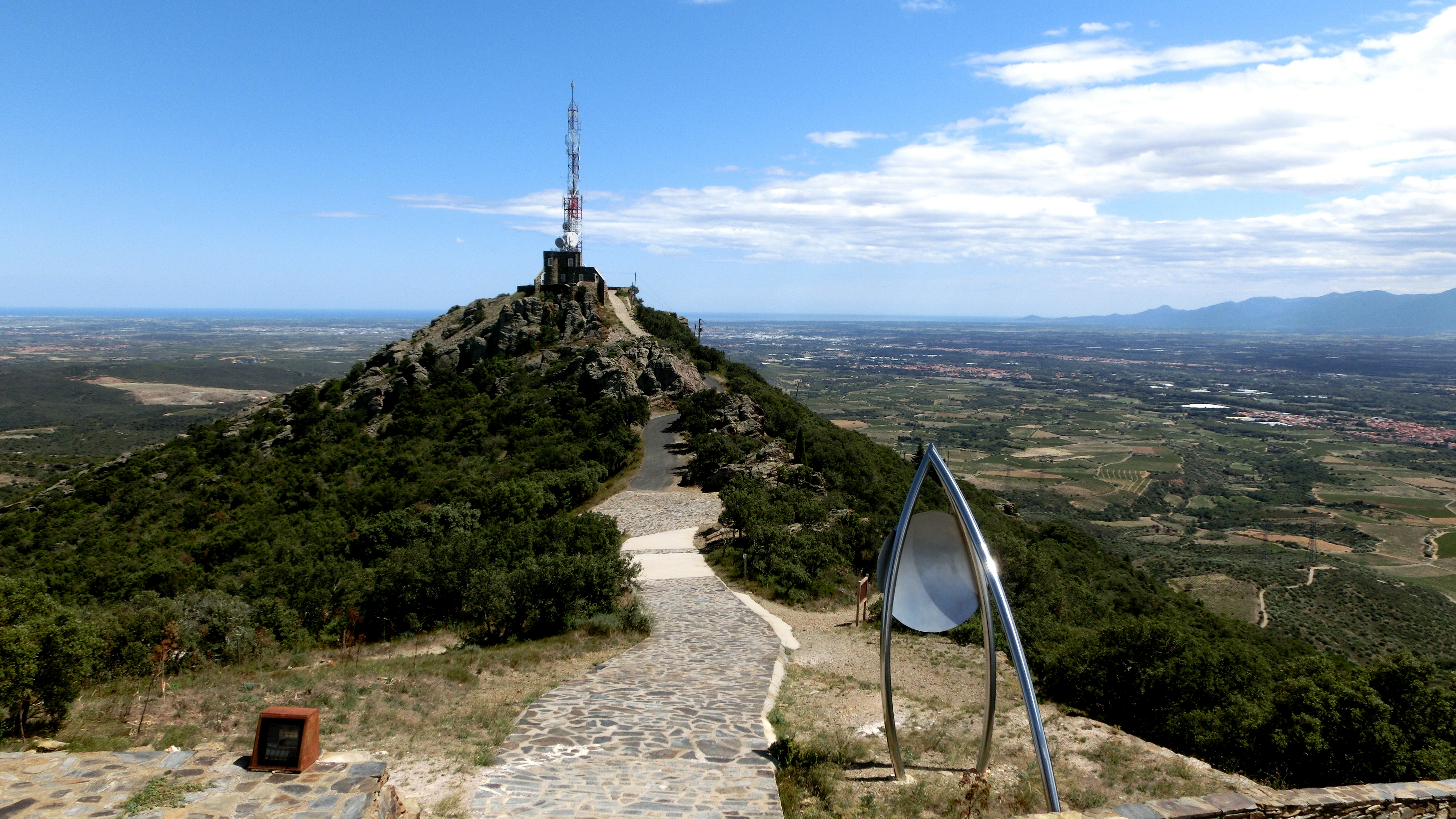 Radio mast of Força Réal, Mediterranean Sea in the background